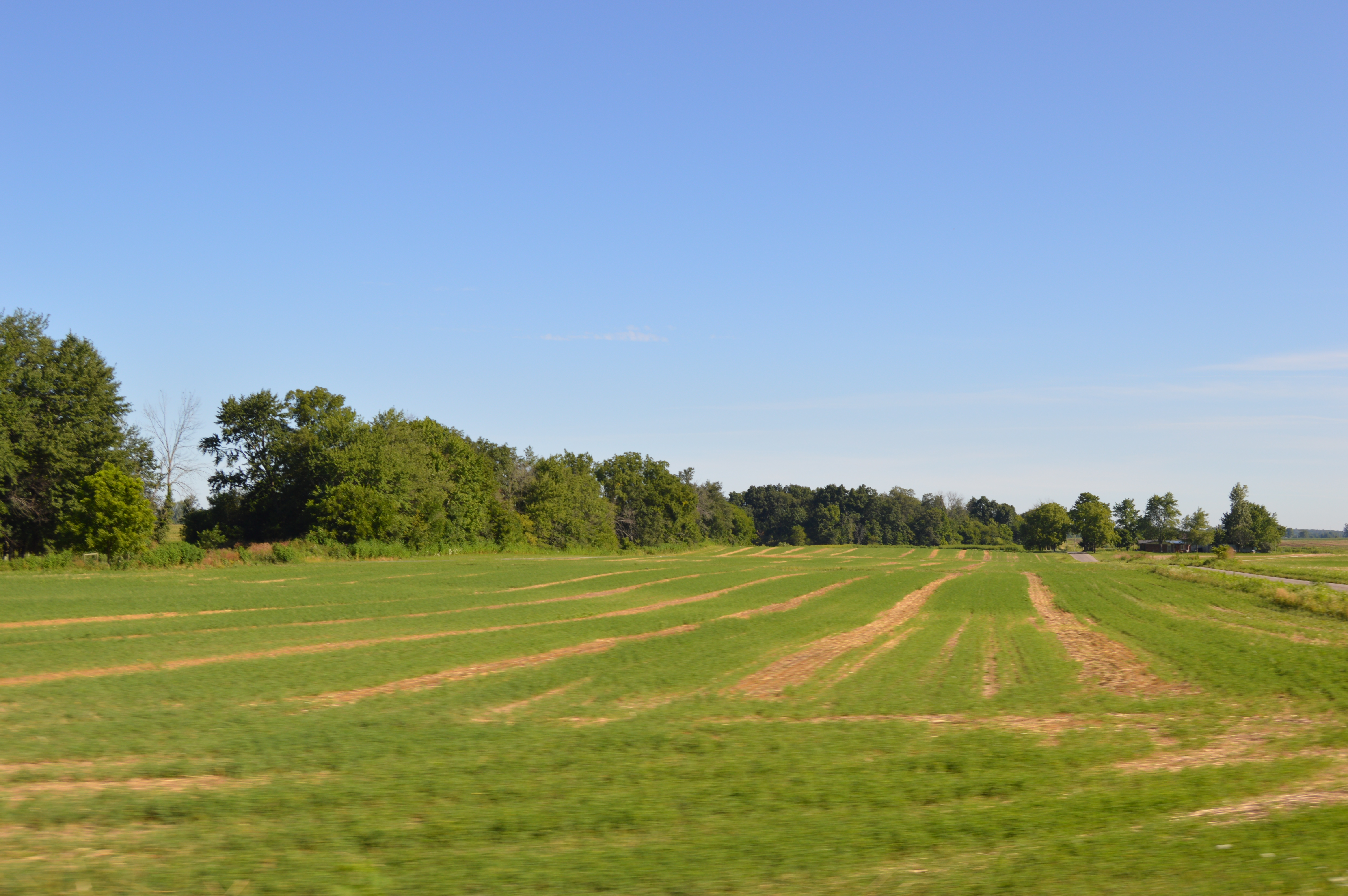 Fields along State Route 47 just west of the Township Road 211 intersection in Pleasant Township, Logan County, Ohio, United States.